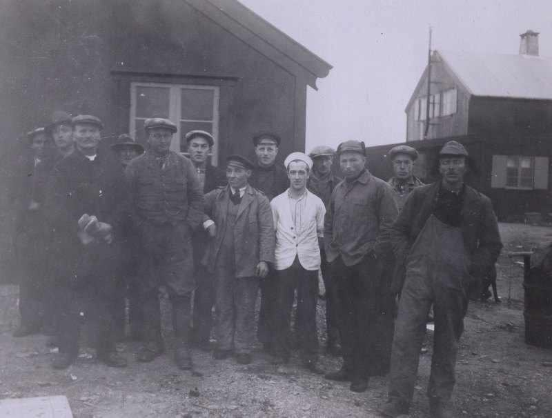 Isfjord Radio, Svalbard, Norway, taken at the end of construction of the construction workers. From the left: Steinsvik, Kongsvold, Dahl, Reite, Aasebø, Kvangarsnes, Nautvik, Berg, Rotvold, Lorentsen, Holte, Lillebø og Bjørneset.